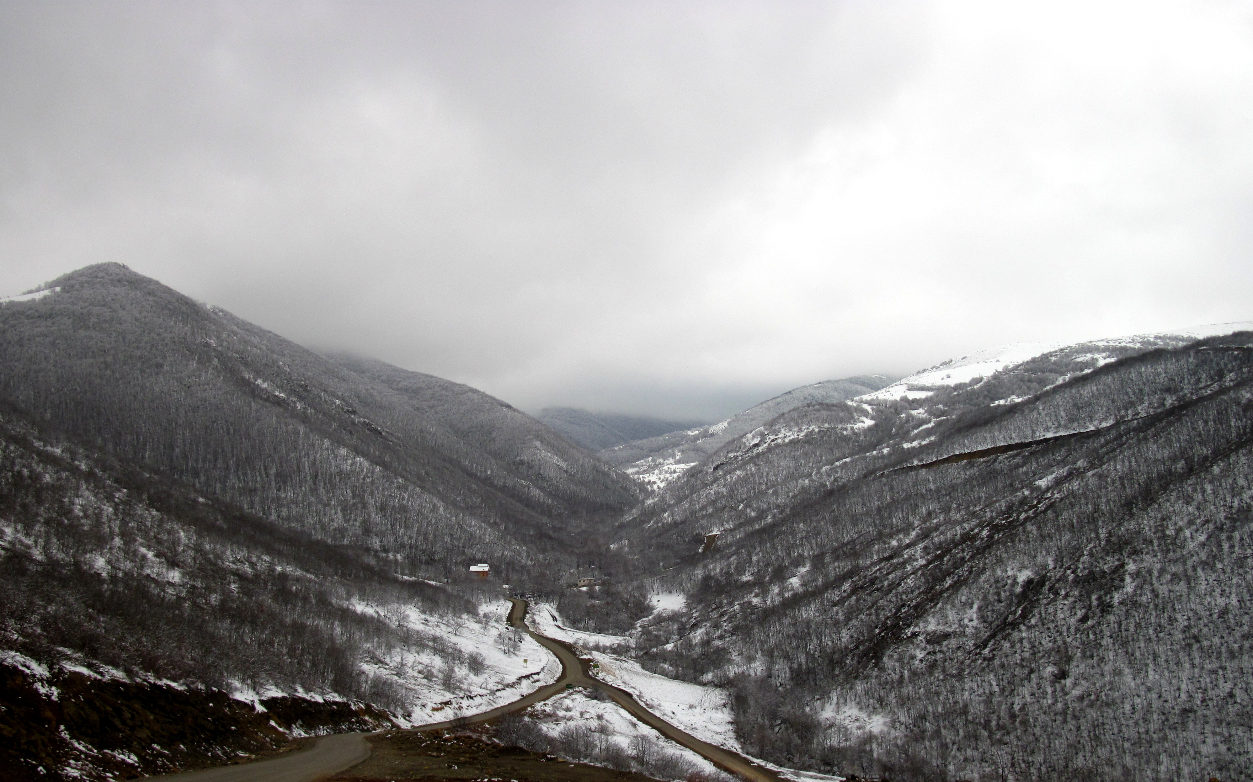 For Mikandi wikipage.